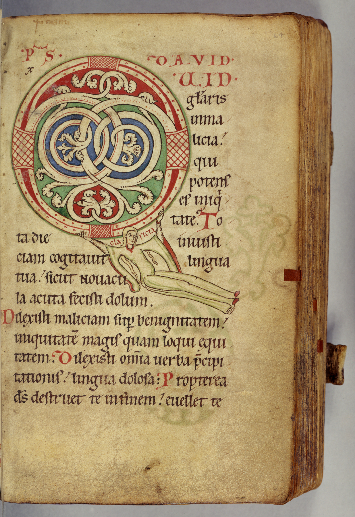 The figure of a woman swinging diagonally over the page forms the tail of the letter Q that begins Psalm 51 (in the counting of the Vulgata, today: Psalm 52) Quid gloriaris in malicia qui potens es in iniquitate (Why do you boast of malice..); a name, Claricia, is inscribed above her head.